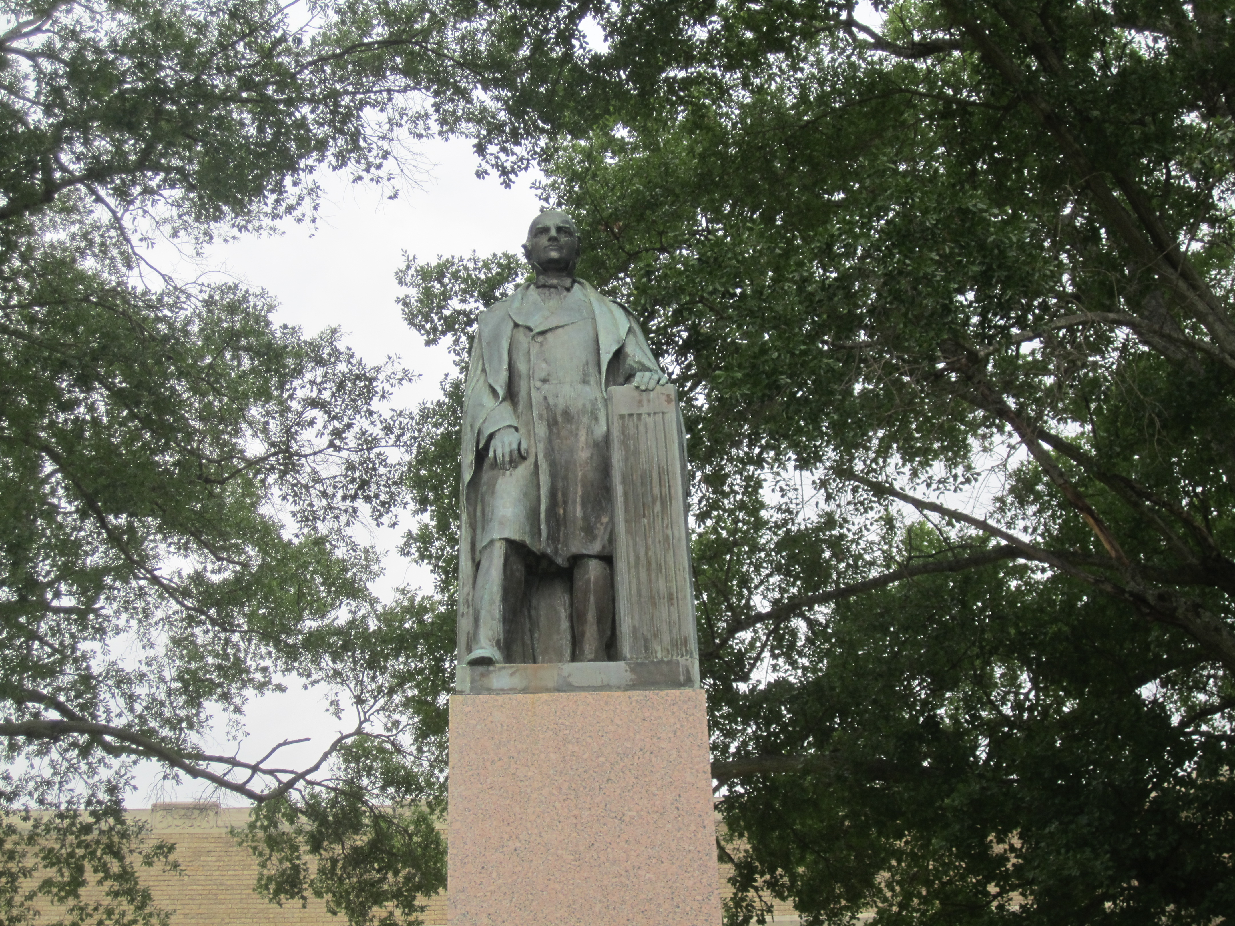 Memorial to Thomas Jefferson Rusk (1937), sculpted by Charles Keck for the Texas Centennial, at the east entrance to the Rusk County Courthouse in Henderson, Texas, United States. I took photo in Henderson, TX, with Canon camera.